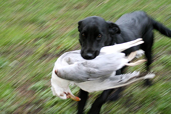 Hunting Labrador fetching a bird